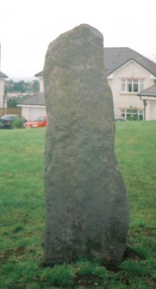 The Draffen stone at Draffen House in Stewarton, Ayrshire.